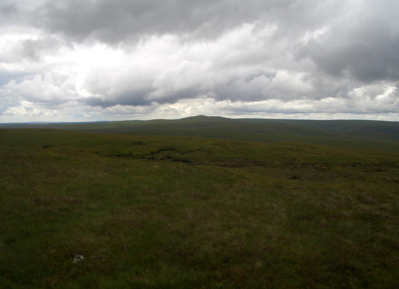 Gorllwyn